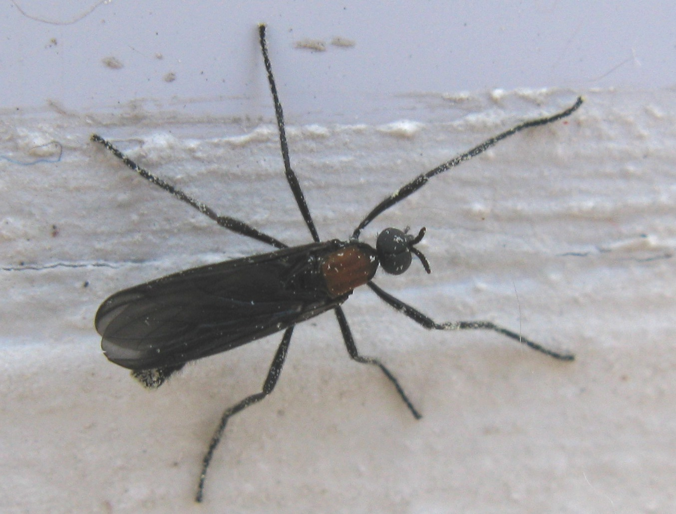 These rather inoffensive flies have various names such as "March Flies" because they emerge in march in Northern cold regions. Also called "Love Bugs" because of their conspicuous mating habits.